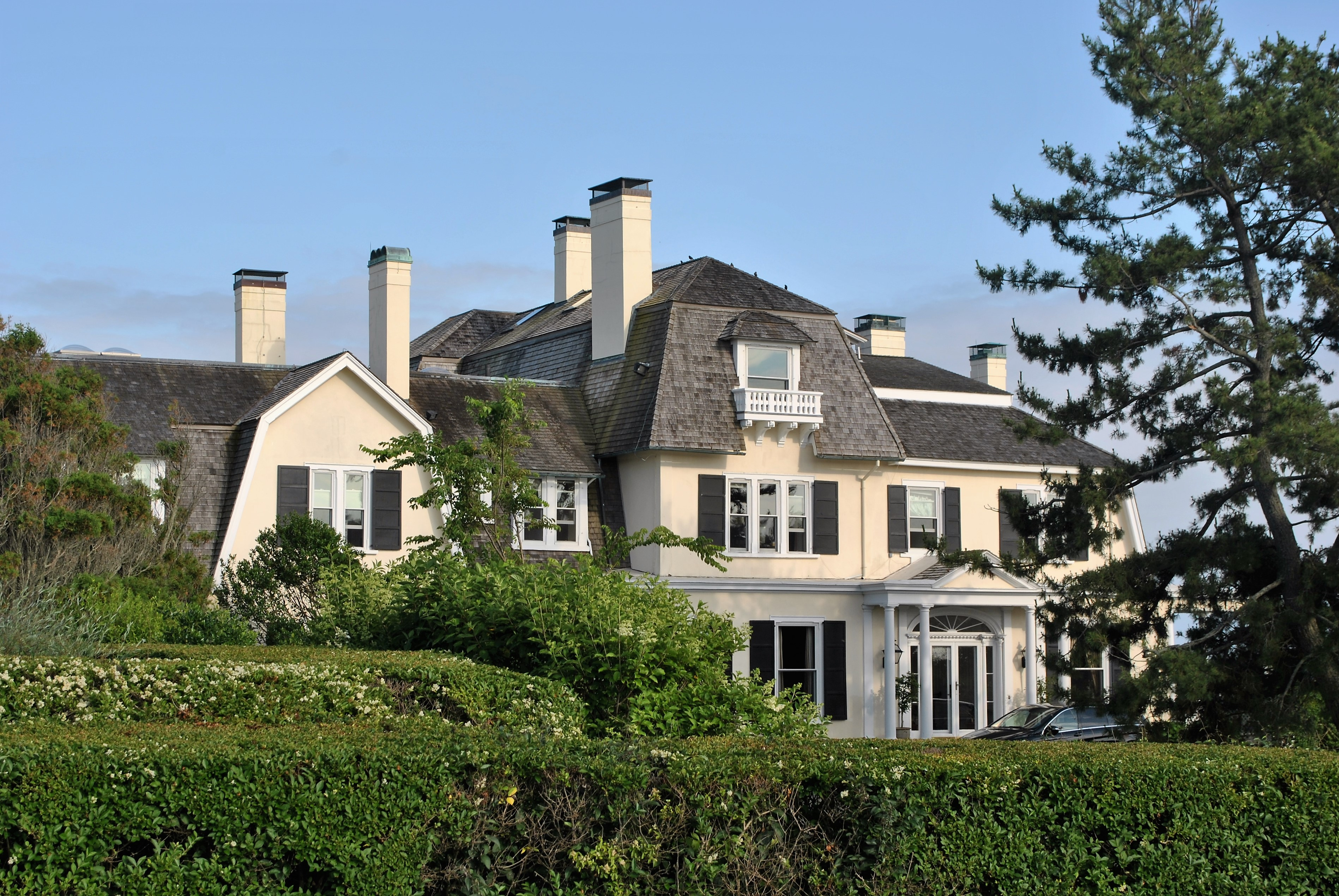 Image originally published in Queer Places: Retracing the Steps of LGBTQ people around the World Authored by Elisa Rolle